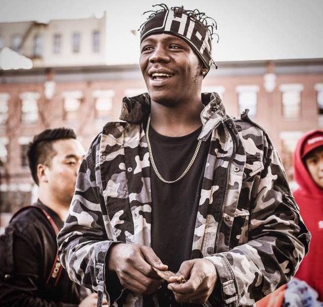 A$AP TyY holding court in his home neighborhood of Harlem.